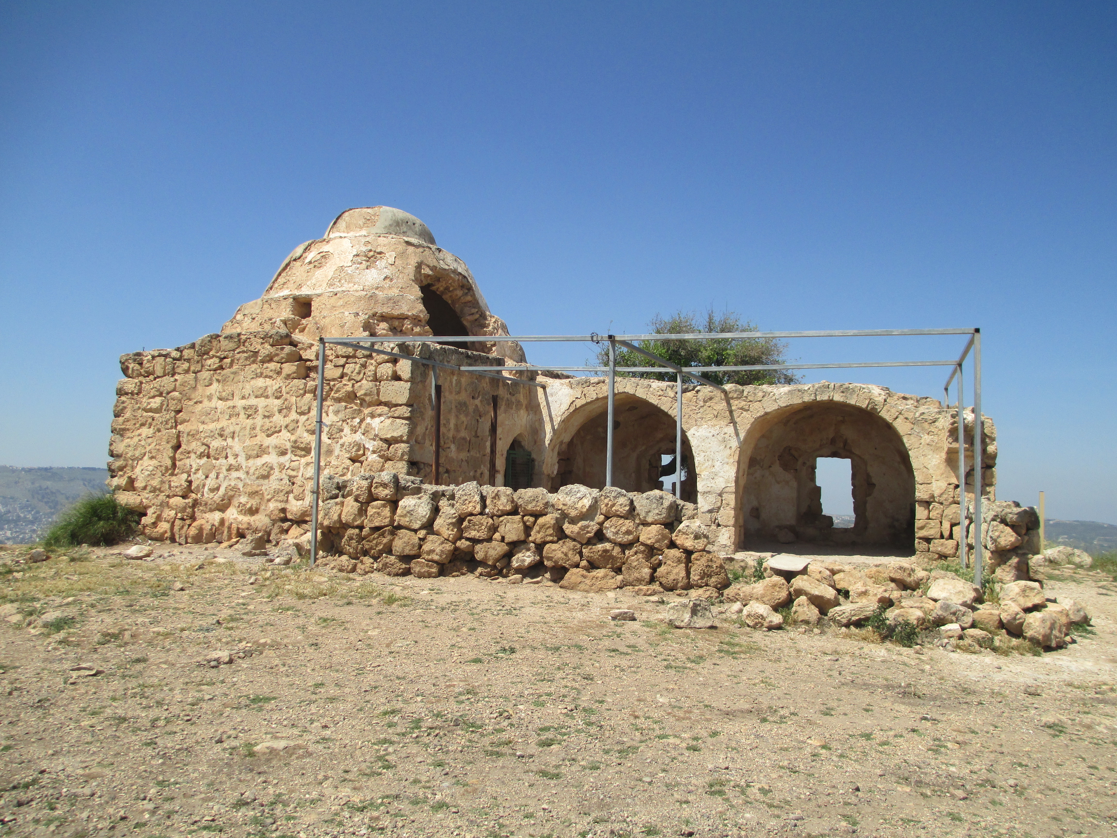 Sheikh Bilal grave on mount Kabir